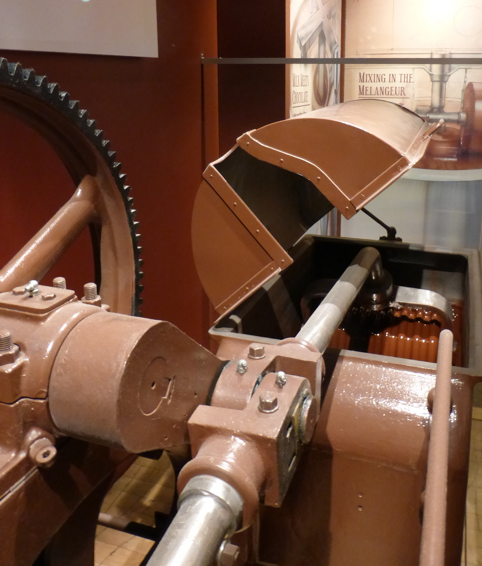 Hershey Conche in the early 1900s made by J.M. Lehmann in Dresden / Paris. This machine is on display as part of the Hershey Story Collection.